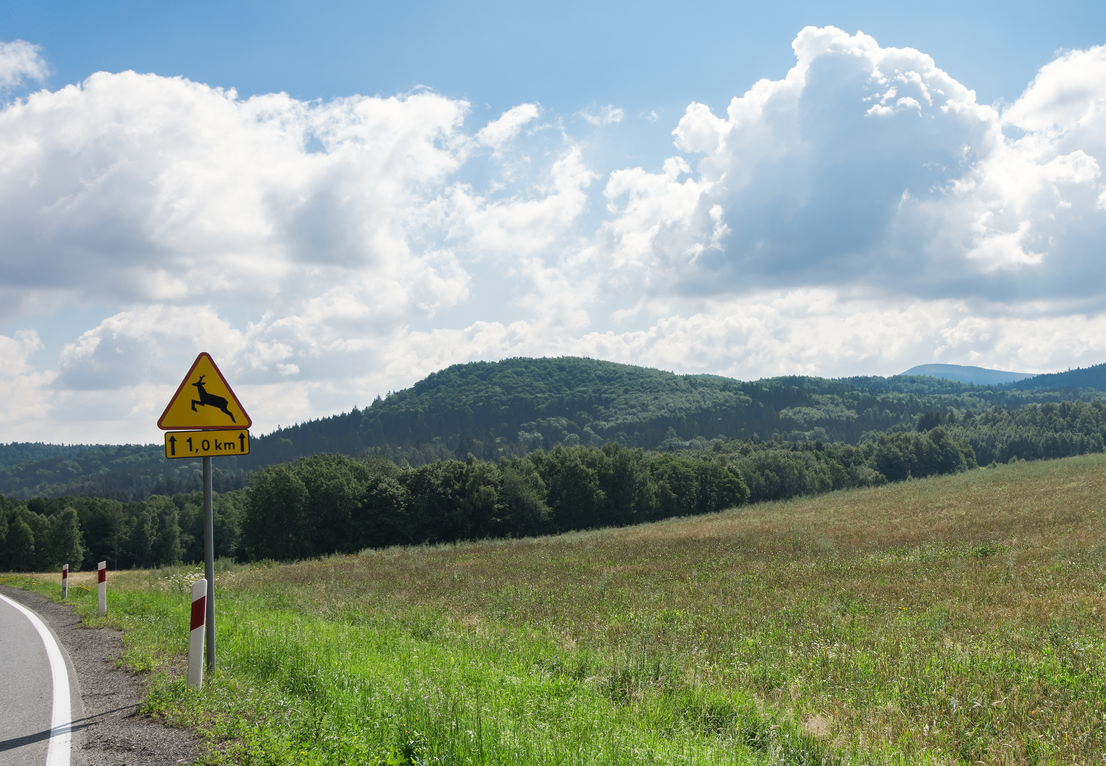 Sokolec, Złote Mountains, Sudetes